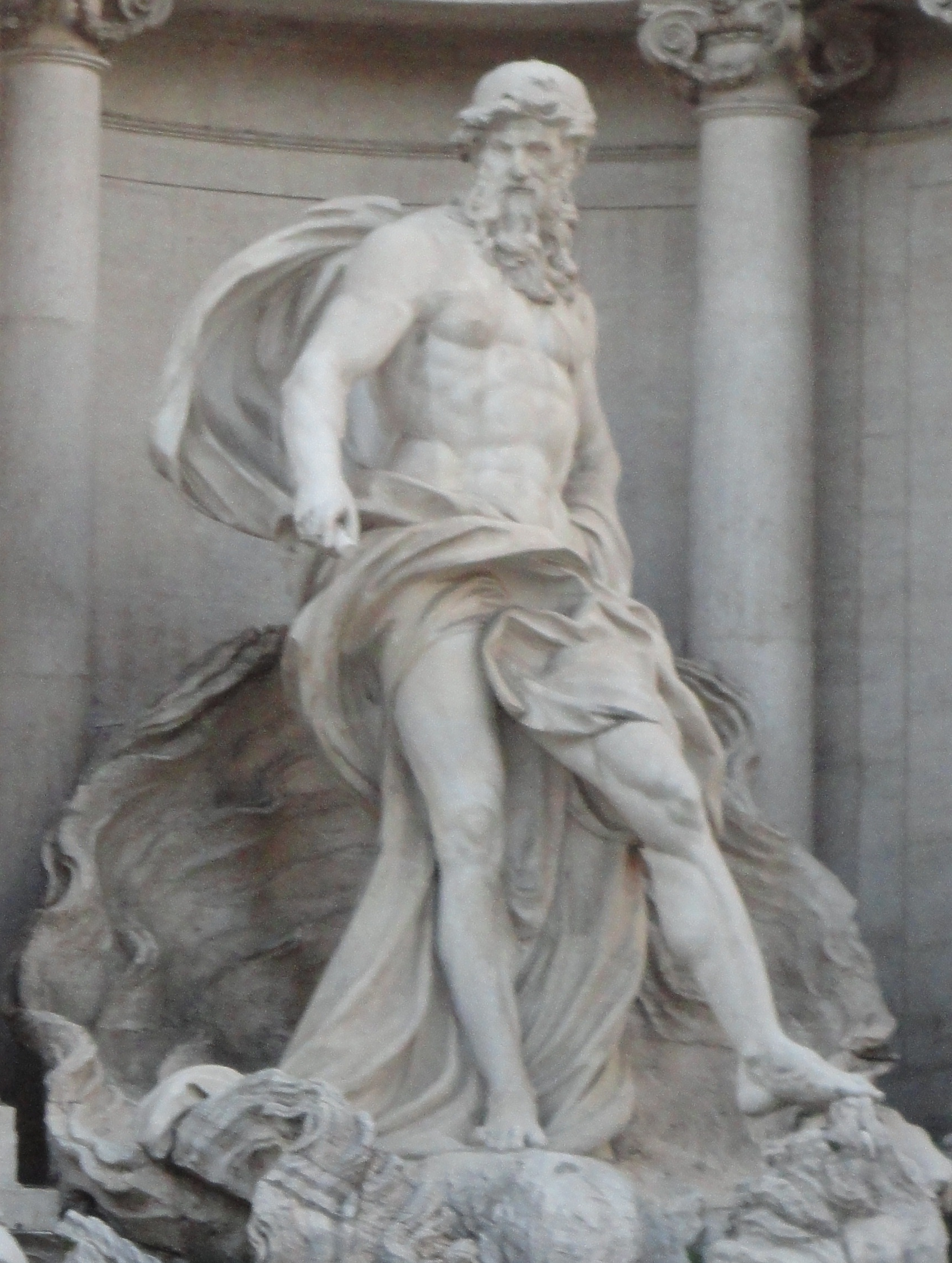 Oceanus aka Neptunus at Trevi Fountain